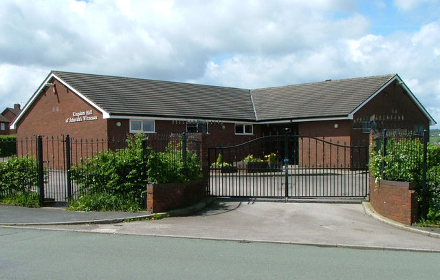 Kingdom Hall of Jehovah's Witnesses. Situated on the corner of Church Road and Church Close, this was allegedly erected in one day by worshippers.